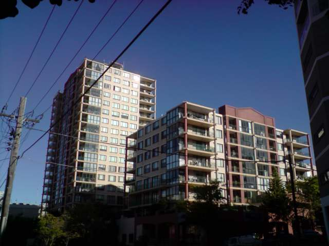 The View from the North of Park Plaza Apartment Buildings 1 & 2